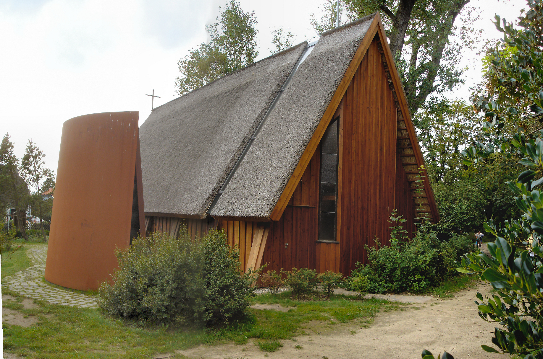 Kirche Ahrenshoop / Church Ahrenshoop